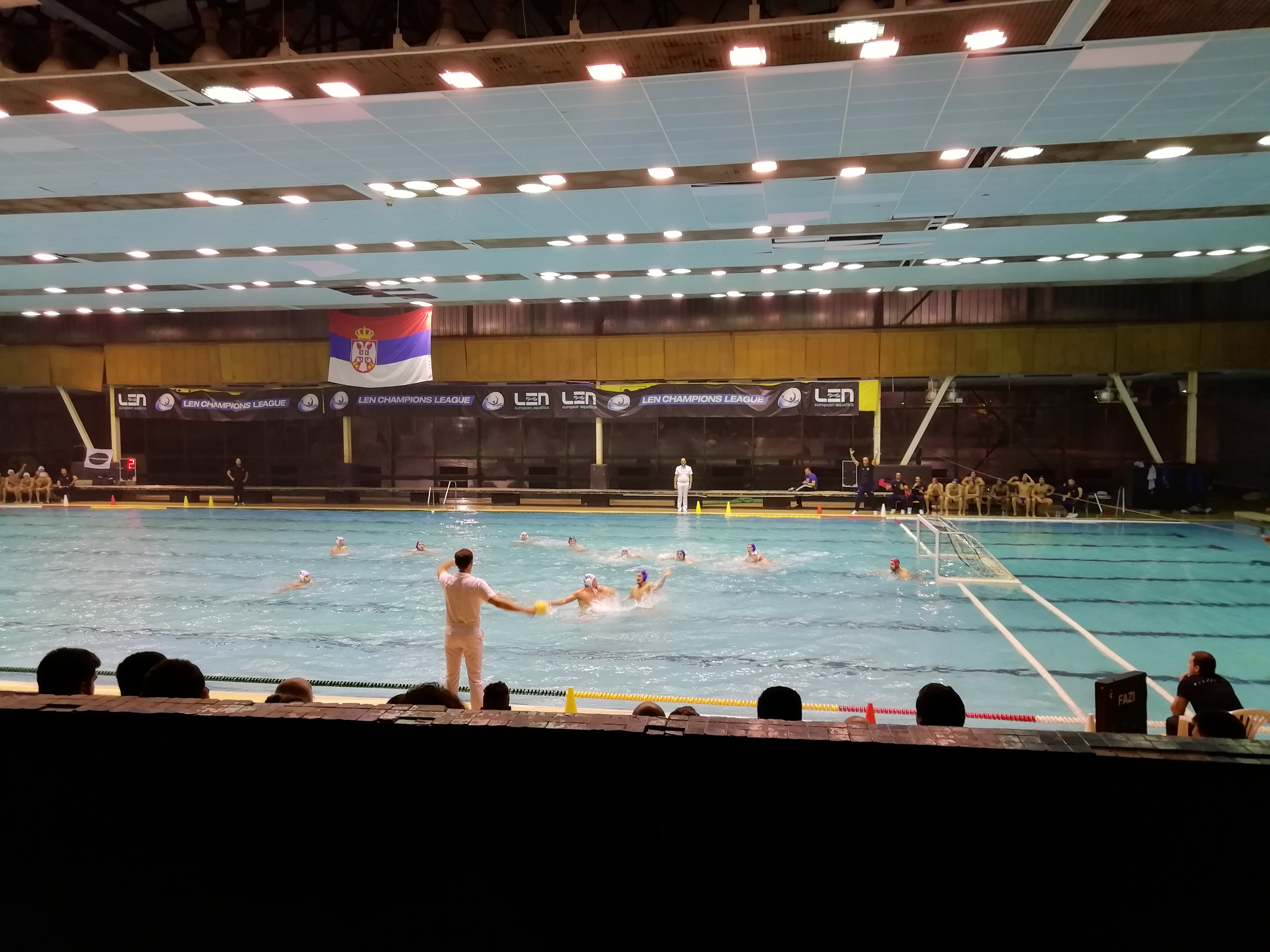 SC Banjica Swimming Pool during game between VK Partizan and VK Šabac in Regional Water Polo League, October 2019